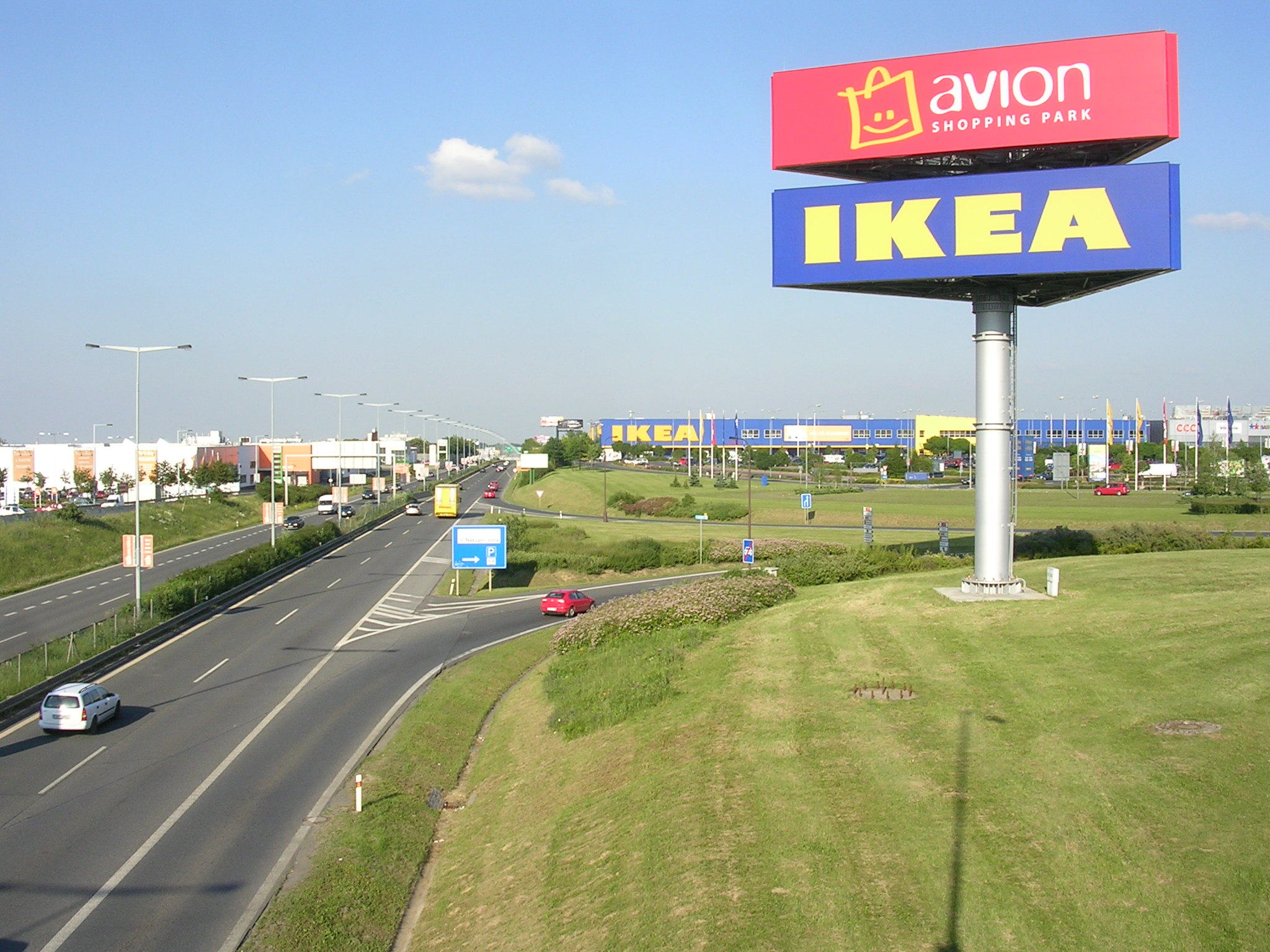 Třebonice, Prague, the Czech Republic. Avion Shopping Park.